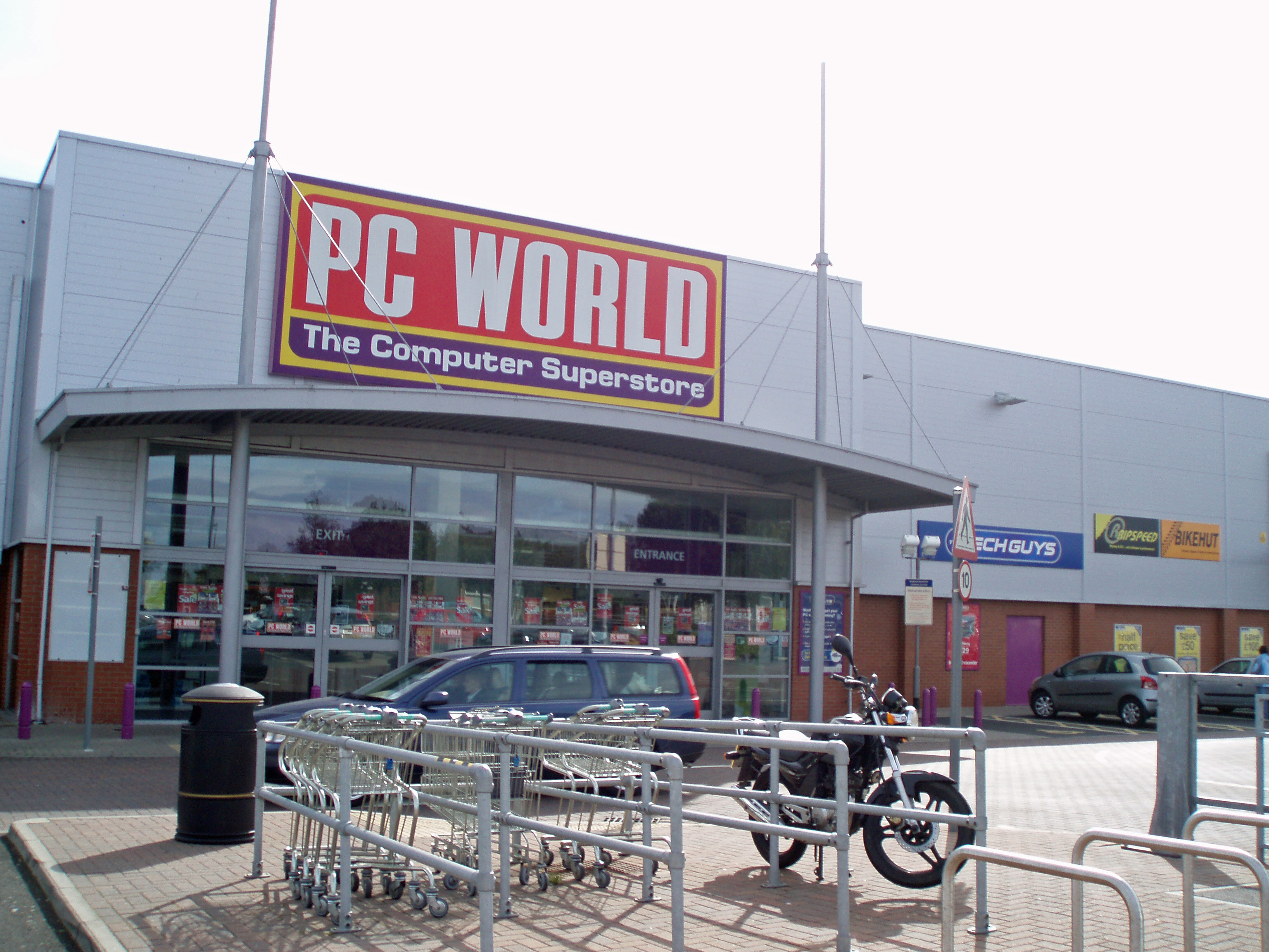 This is an image of the PC World store at Kingston Park, Newcastle upon Tyne, England